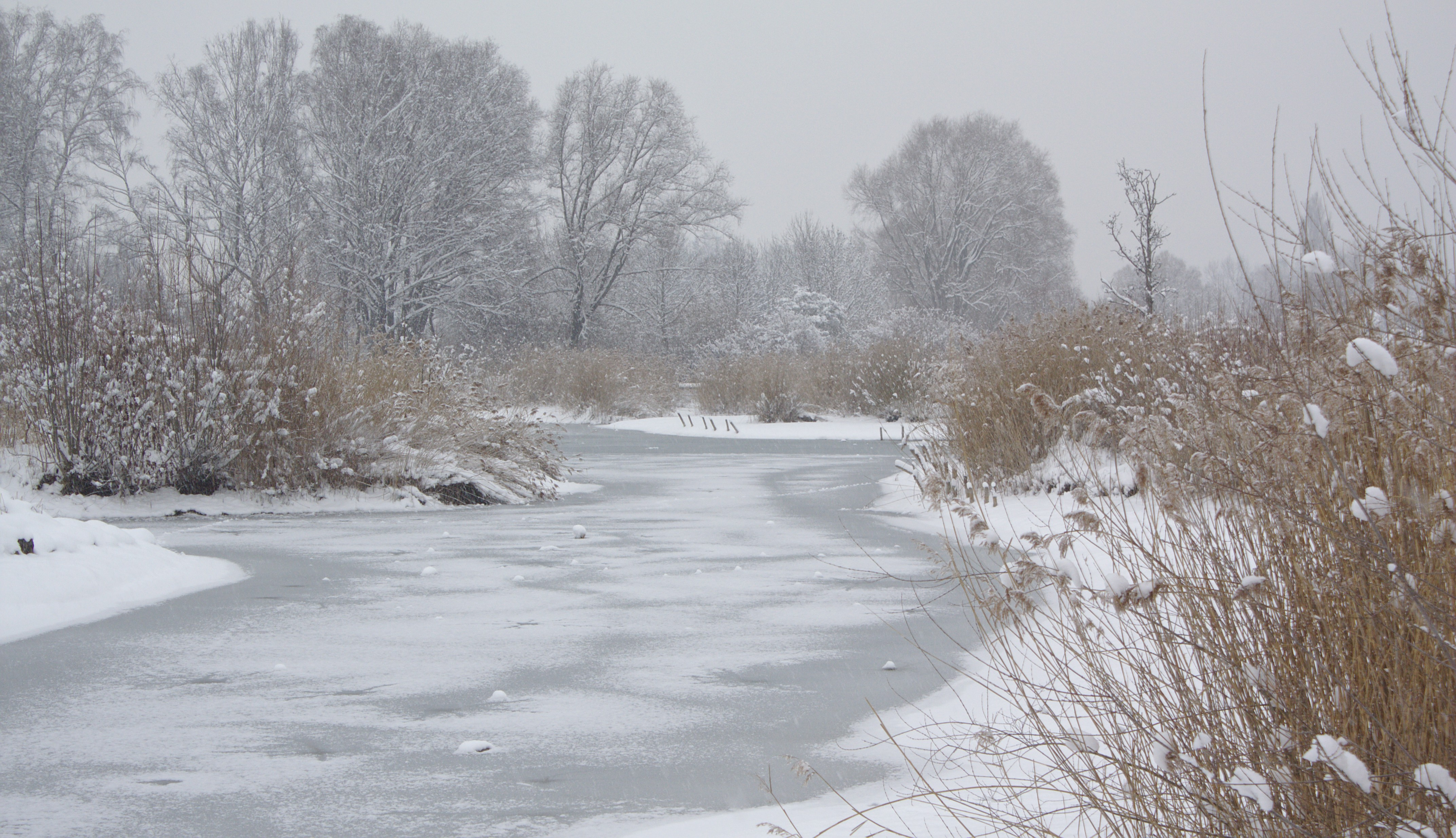 Winter landscape at Gwatt by Thun.